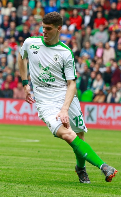 Igor Konovalov with FC Rubin Kazan in a game against FC Krasnodar.